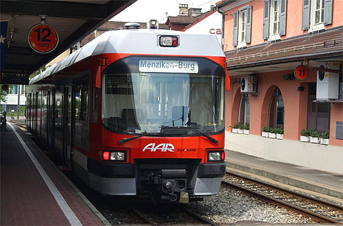 Ein WSB-Zug im Bahnhof Aarau, 6. Juni 2004, beschriftet mit AAR Bus + Bahn (Dachmarke von WSB und BBA)